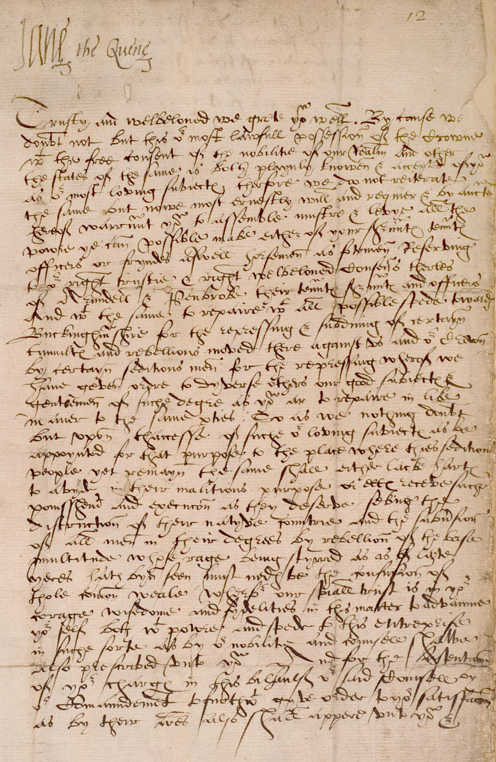 Original letter of Lady Jane Grey, signed by her as `Quene’. July 1553. Image copyright © The Inner Temple Library.